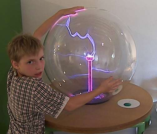 Technisches Museum Wien